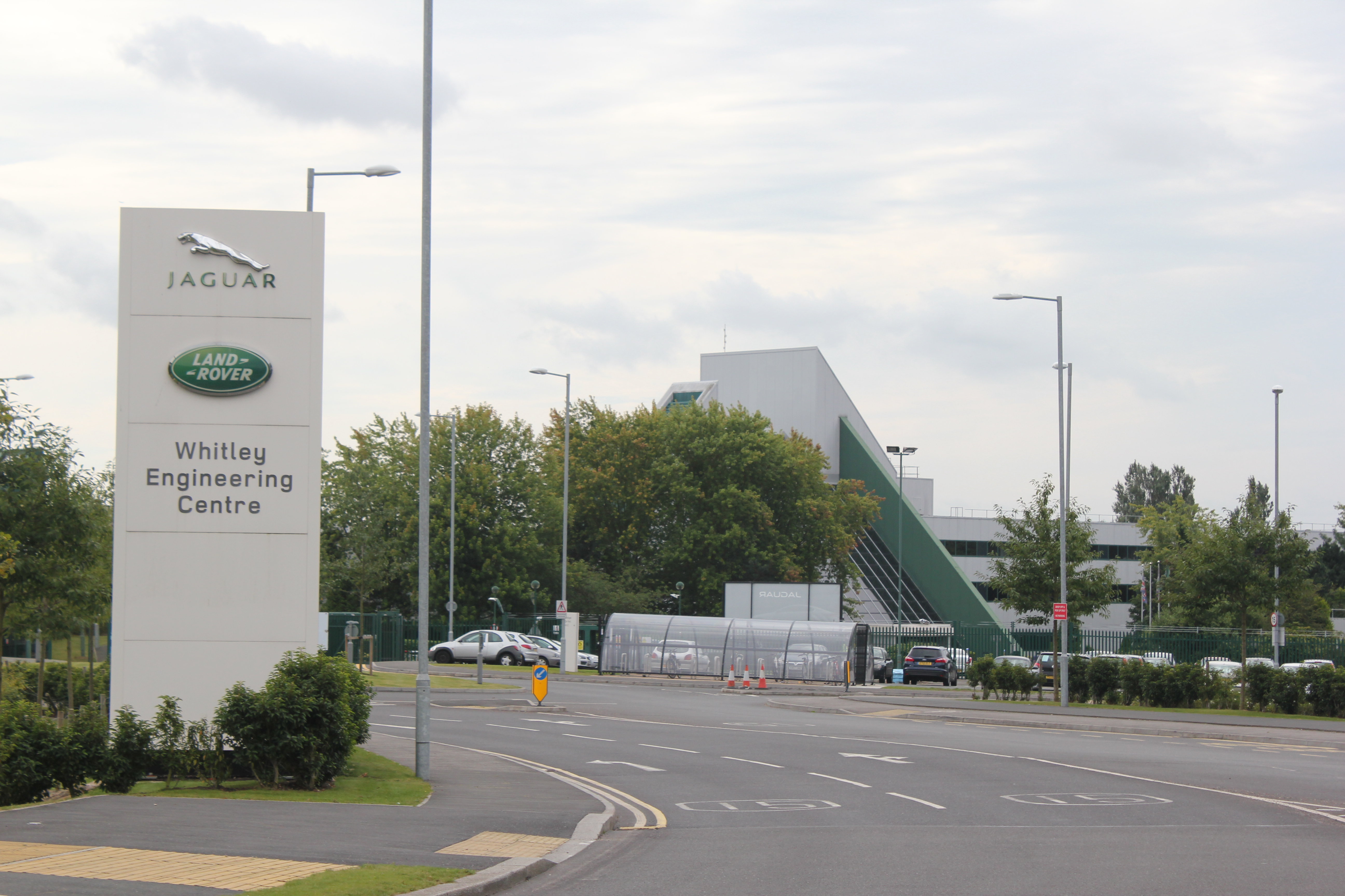 P2 - Whitley Jaguar plant in Coventry, UK